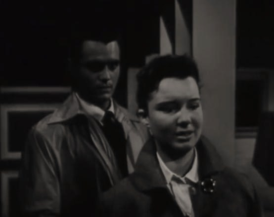 William Reynolds & Gigi Perreau in There's Always Tomorrow - trailer (cropped screenshot)